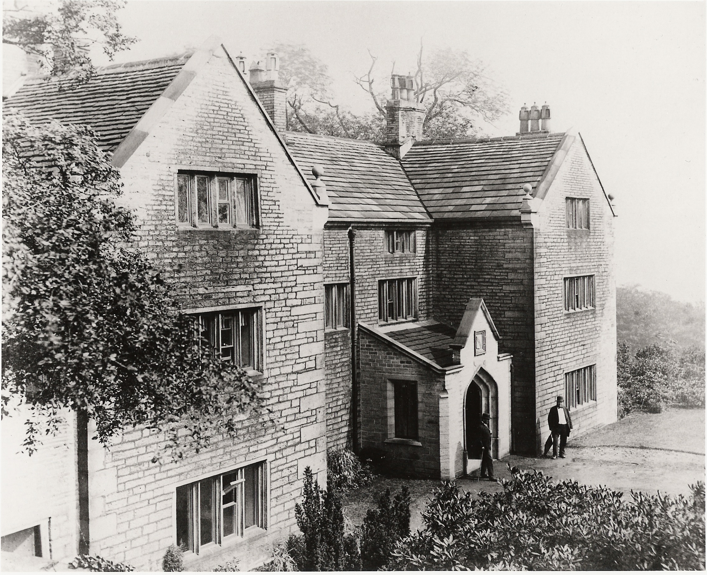 The front of Hollingworth Hall